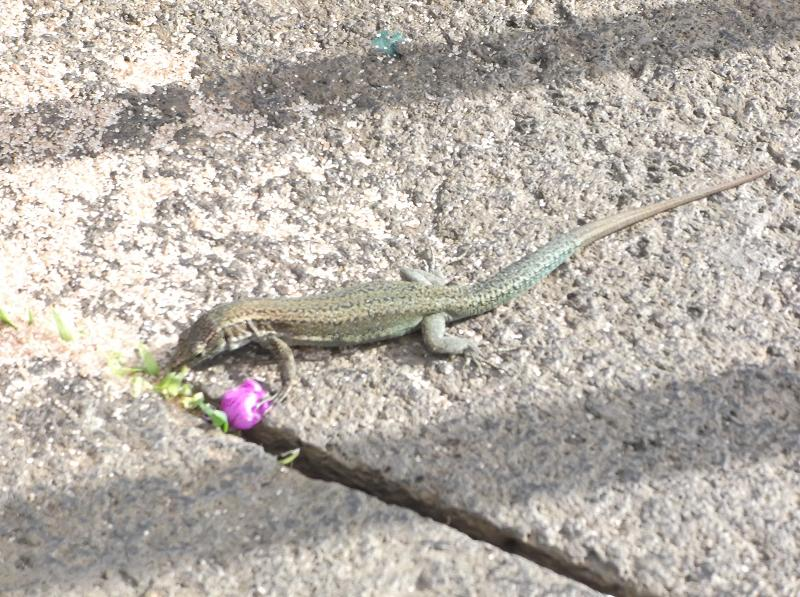 Teira dugesii in Madeira.